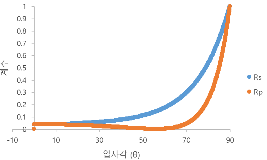 termpapaper3